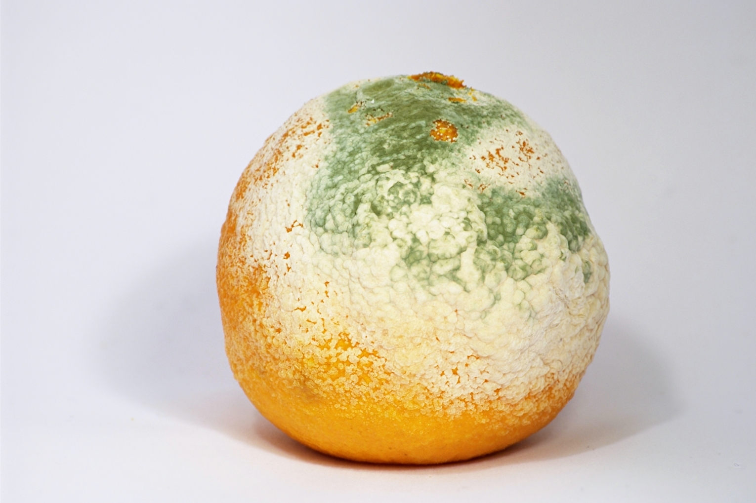 A clementine covered with mould